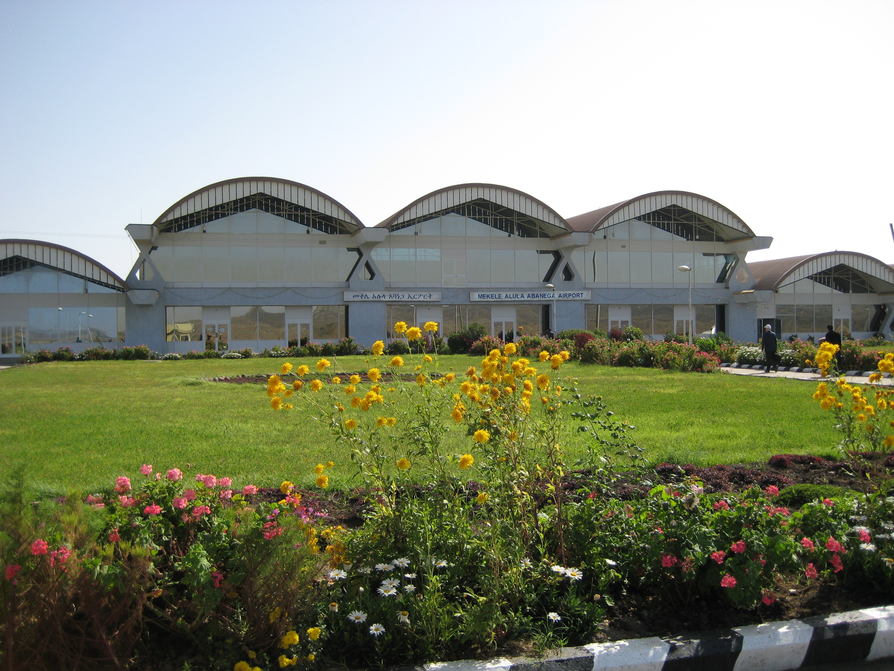 Photograph of Mekelle Airport, seen from the runway